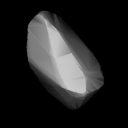 3D convex shape model of 1119 Euboea, computed using light curve inversion techniques. J. Hanuš, J. Ďurech, M. Brož, B. D. Warner (June 2011). "A study of asteroid pole-latitude distribution based on an extended set of shape models derived by the lightcurve inversion method". Astronomy and Astrophysics 530: A134. ISSN 0004-6361. arXiv